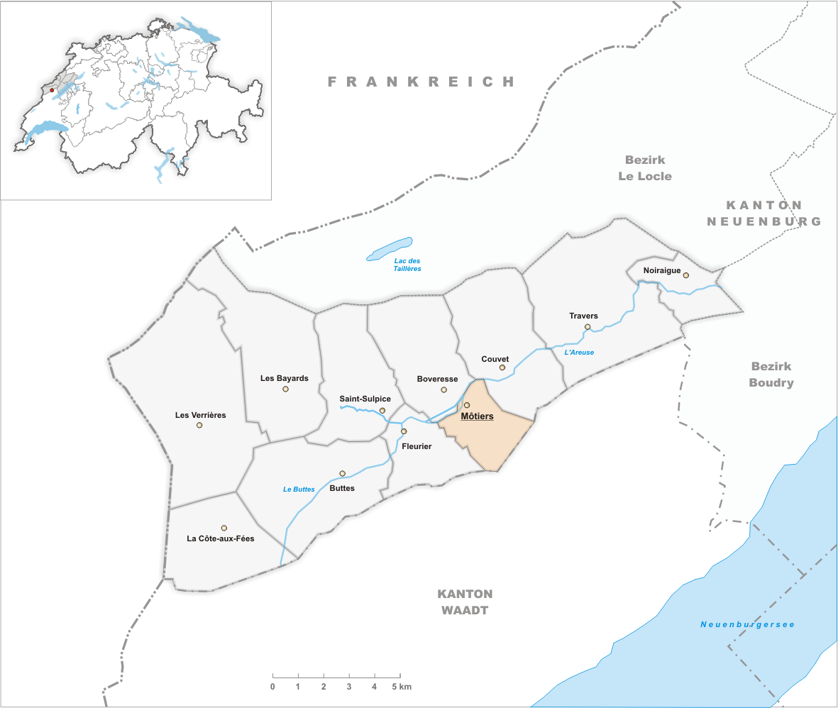 Municipality Môtiers